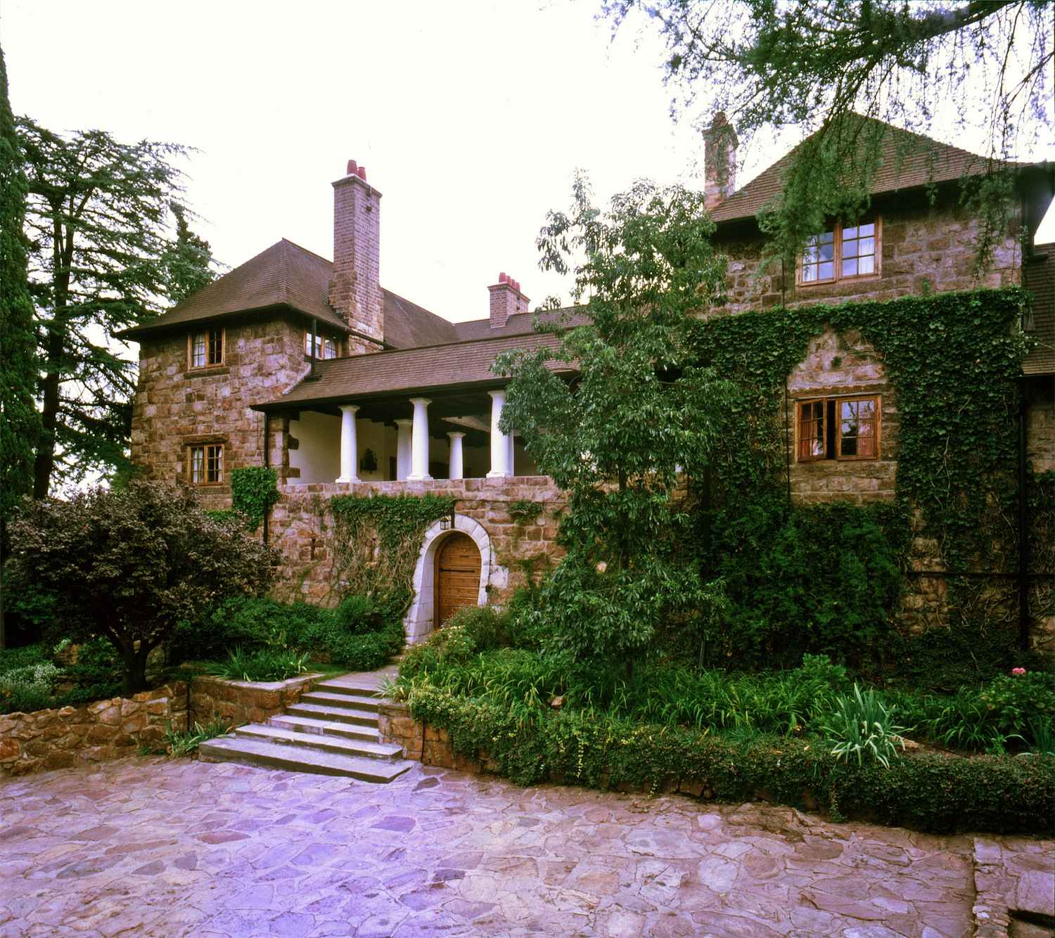 This media shows a South African Protected Site with SAHRA file reference 9/2/228/0153.